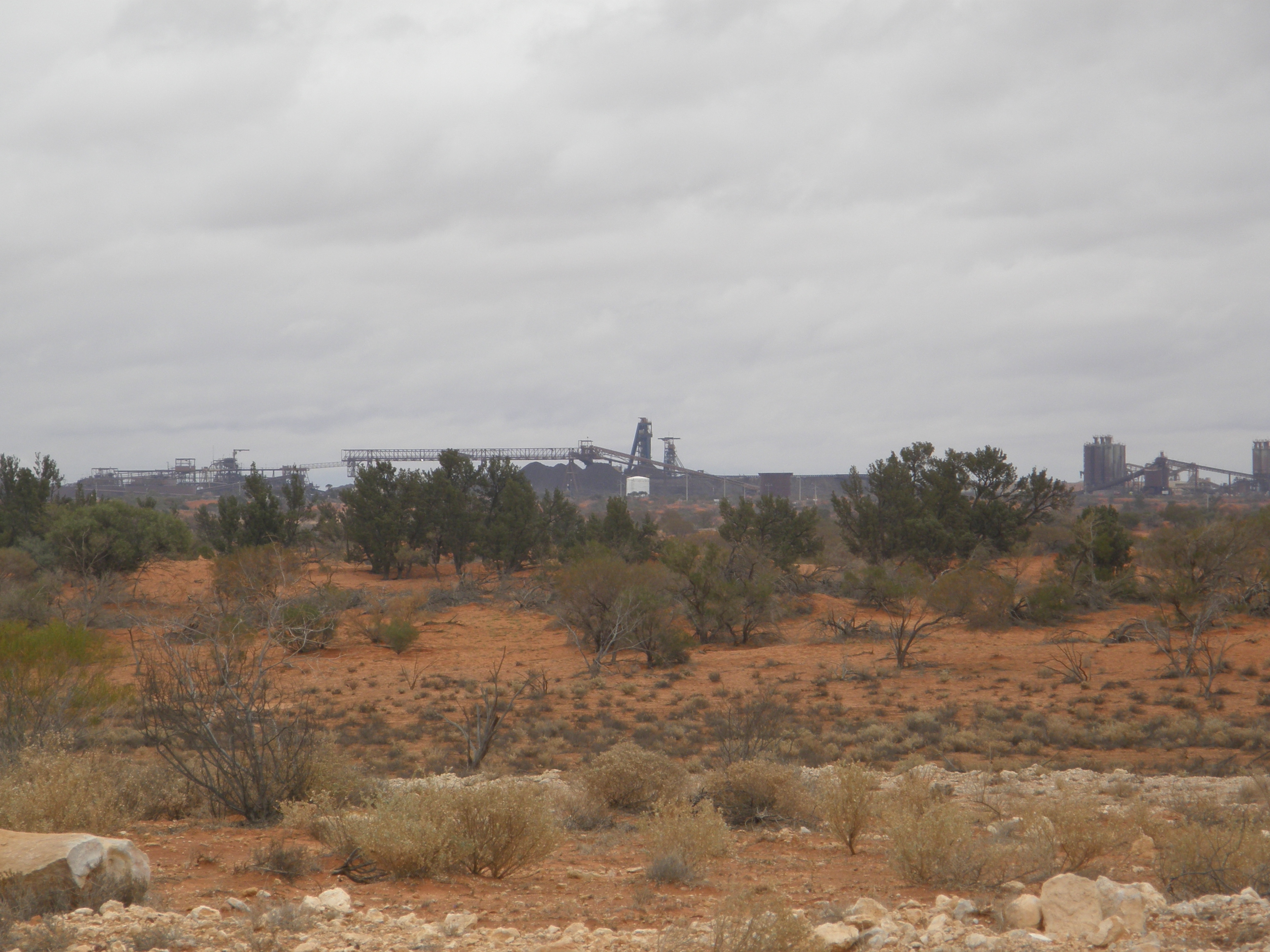 Main shafts of Olympic Dam Cu-U-Au-Ag mine in South Australia: Sir Lindsay Clark Shaft is left, Robertson shaft is right